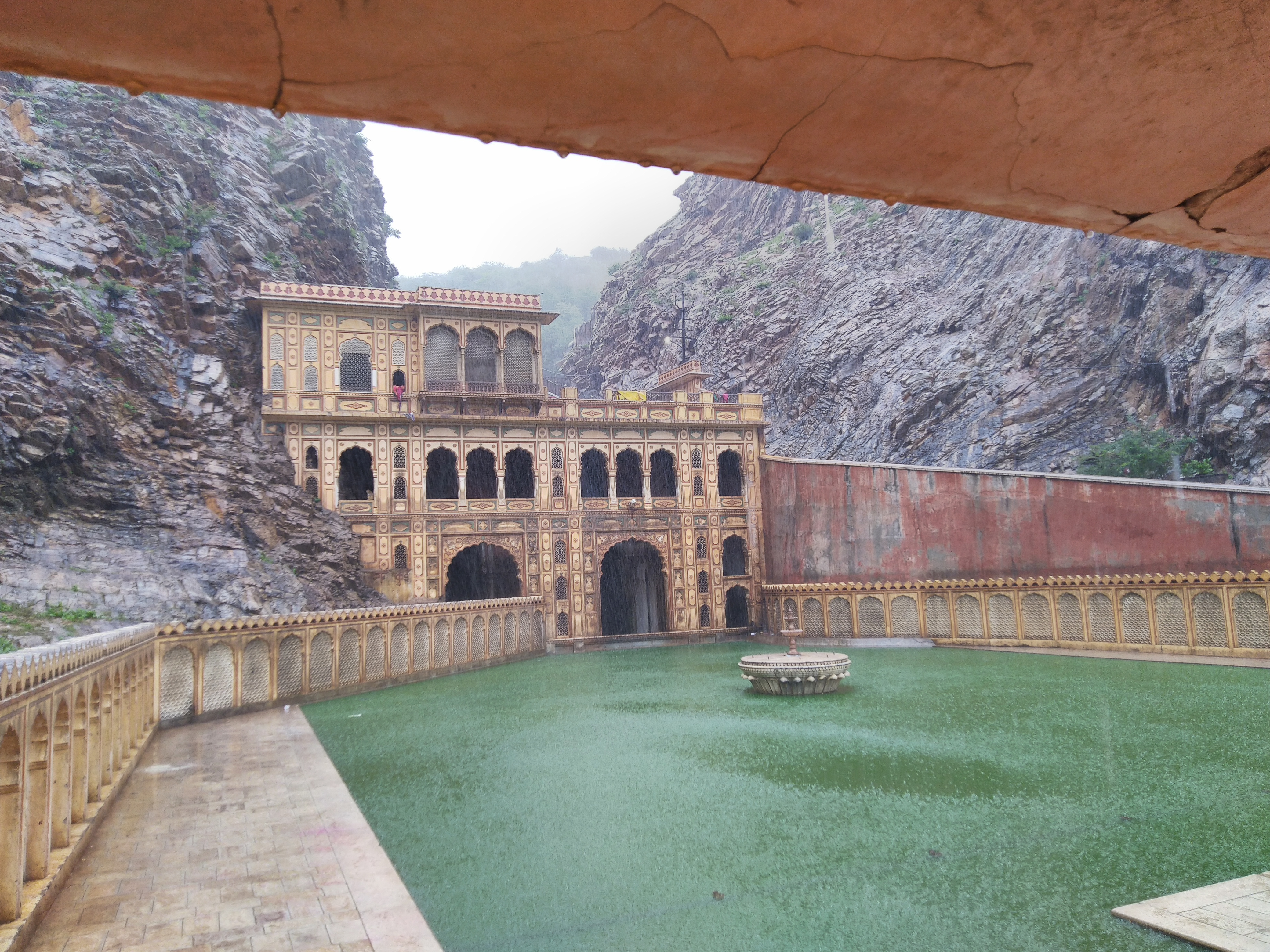 A photograph taken during rainfall at galta temple, jaipur, rajasthan, India